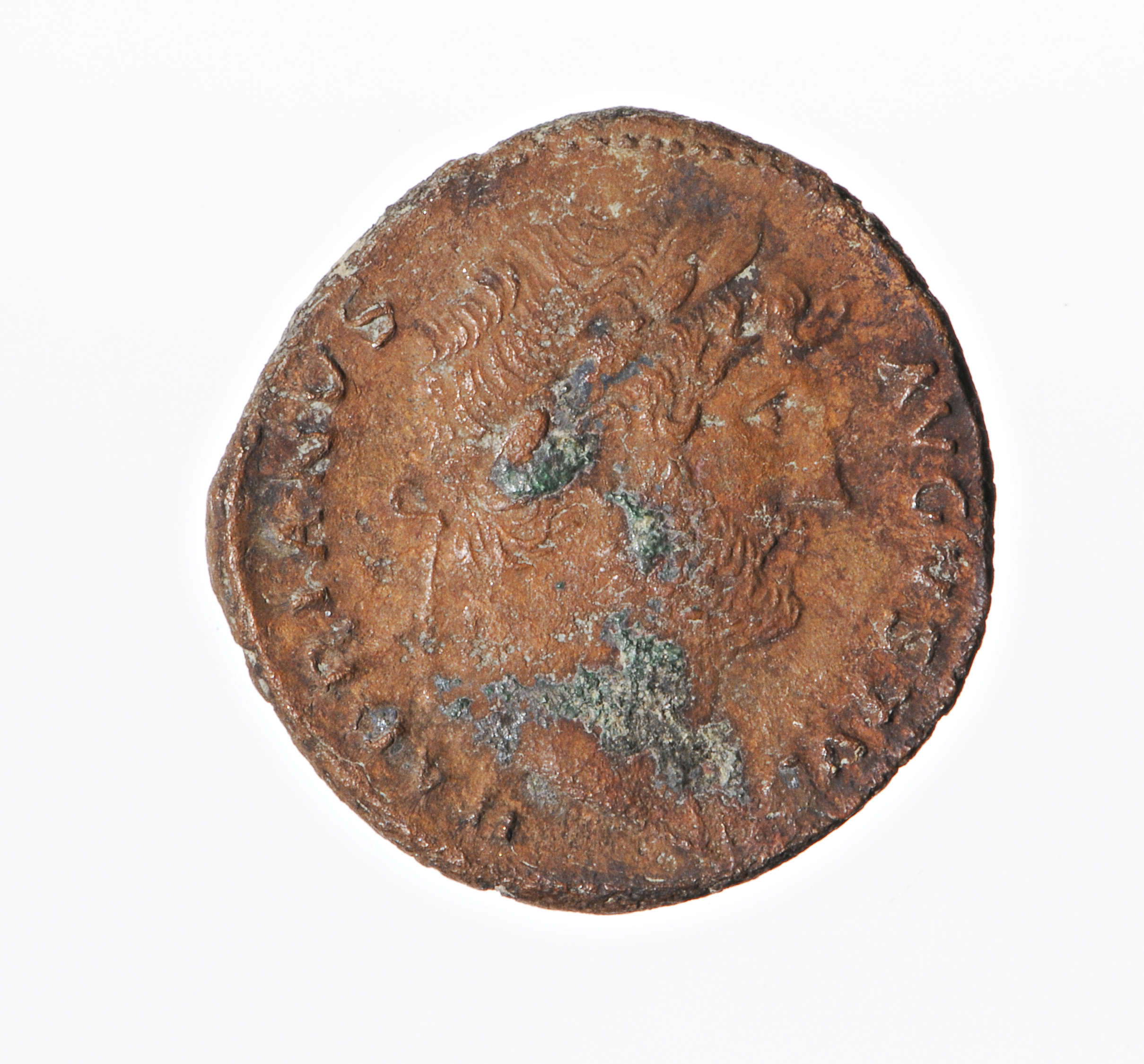 Roman coin (copper) with the head of emperor Hadrian